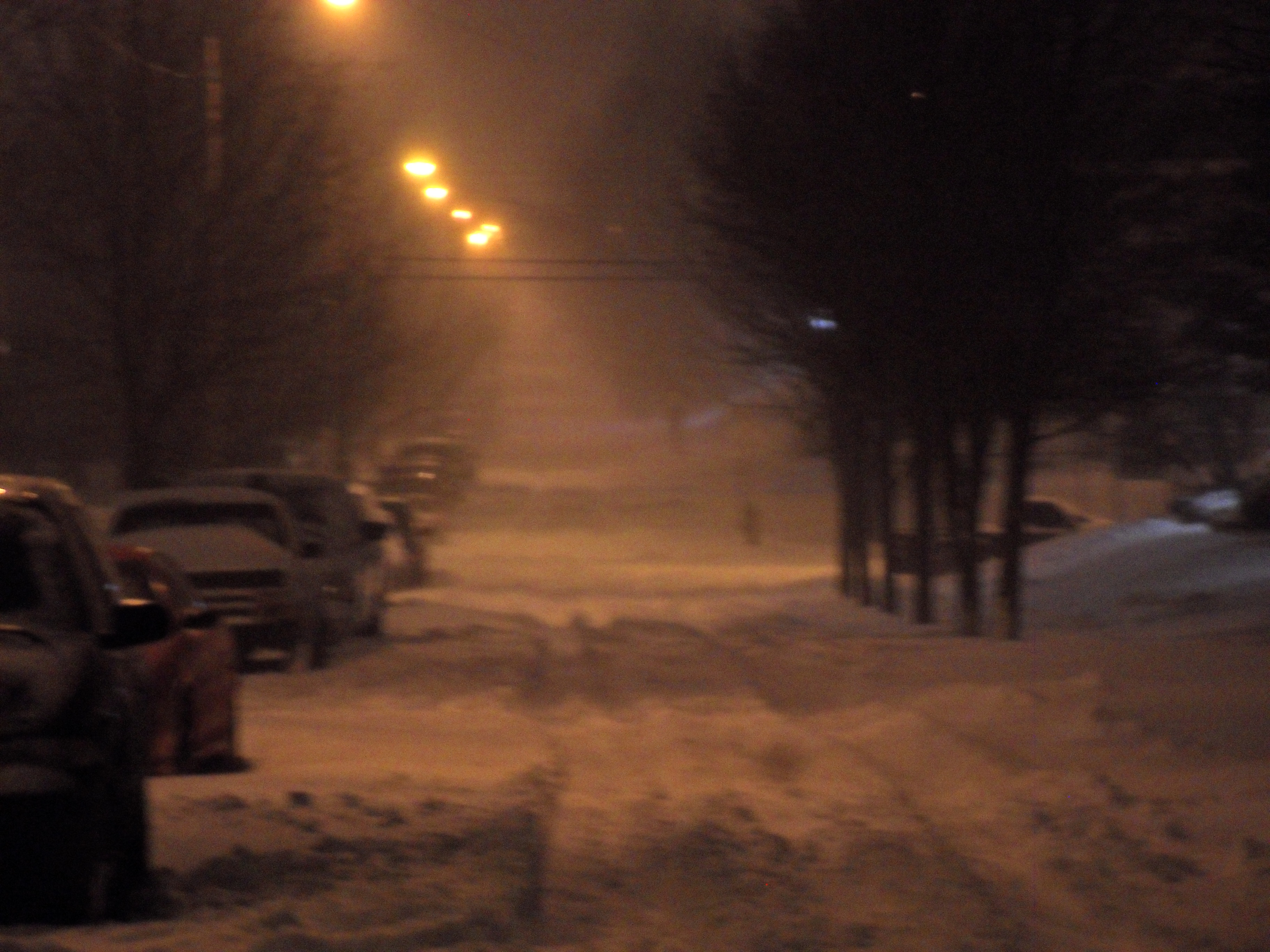 January 31 – February 2, 2011 North American blizzard in Kansas City Missouri.